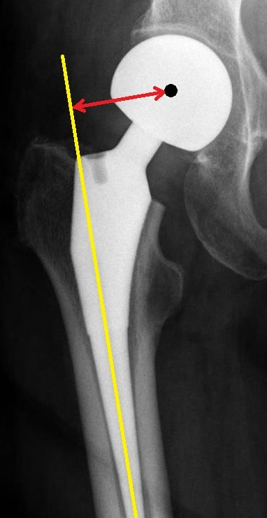 Femoral offset in hip replacement of hemiarthroplasty type.